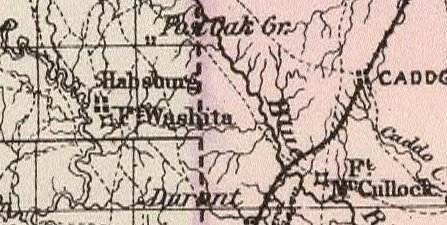 Small section of Indian Territory map Area around Fort Washita/Hatsburg(Hatsboro), Indian Territory. Copyright 1887 by Wm. M. Bradley & Bro. (1890)